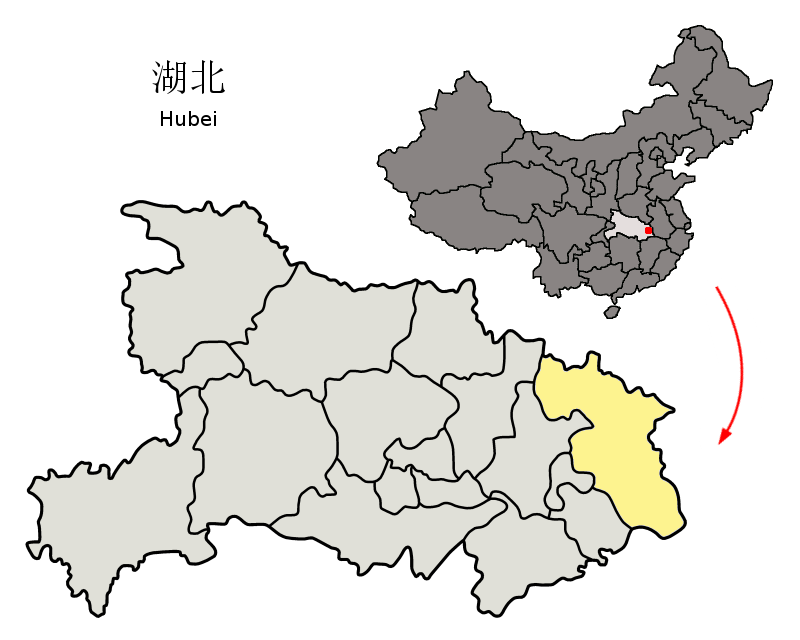 Location of Huanggang Prefecture (yellow) within Hubei Province of China Map drawn in december 2007 using various sources, mainly : Hubei Province administrative regions GIS data: 1:1M, County level, 1990 Hubei Counties map from